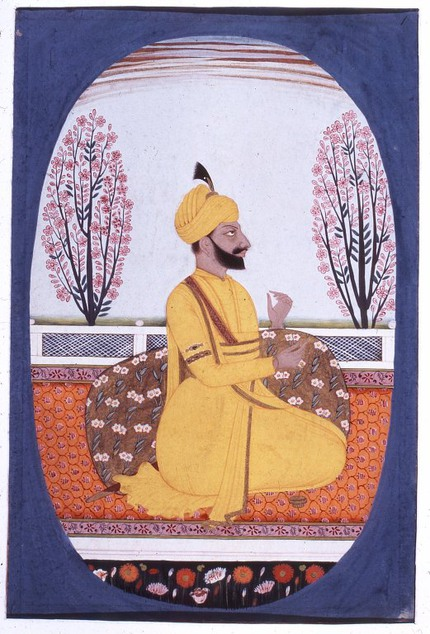 This portrait of the ruler Amur Singh of Patiala, an important Sikh kingdom, shows the king seated on a terrace on a luxurious carpet with a large bolster behind him. At the beginning of the nineteenth century the Punjab region of northern India, previously led by Hindu rulers, was overtaken by rulers who belonged to the Sikh religion. These new leaders borrowed select elements of courtly culture from their predecessors, and they hired many of the same artist families to make portraits for them (other subjects largely fell out of favor). Amur Singh’s turban is taller than those of Hindu rulers of the time, because it needs to accommodate his long hair: Sikh men are not supposed to cut their hair, and they wear it bundled on top of their head, wrapped in a turban.